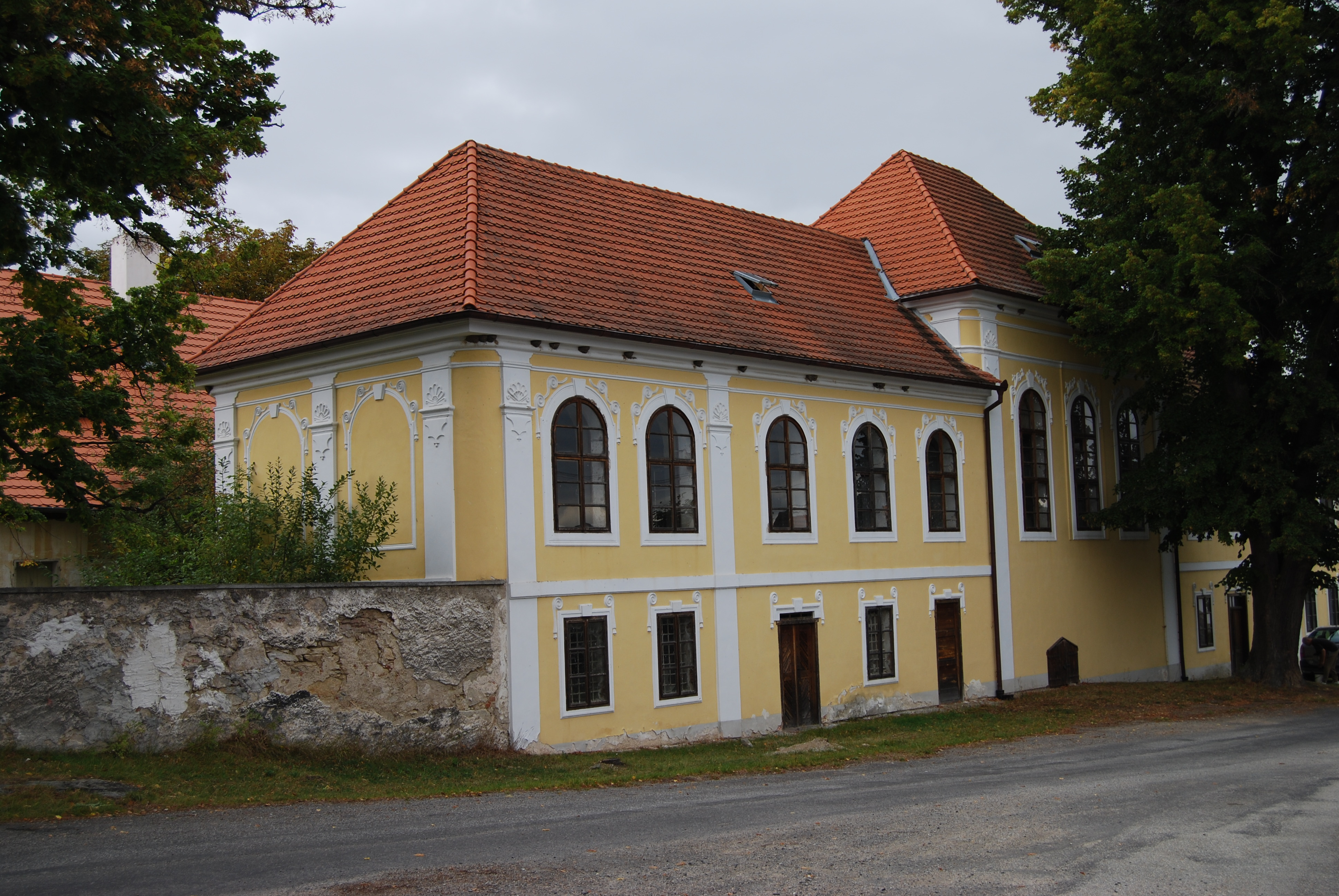 Varvažov village in Pisek District, Czech Republic. Castle Varvažov